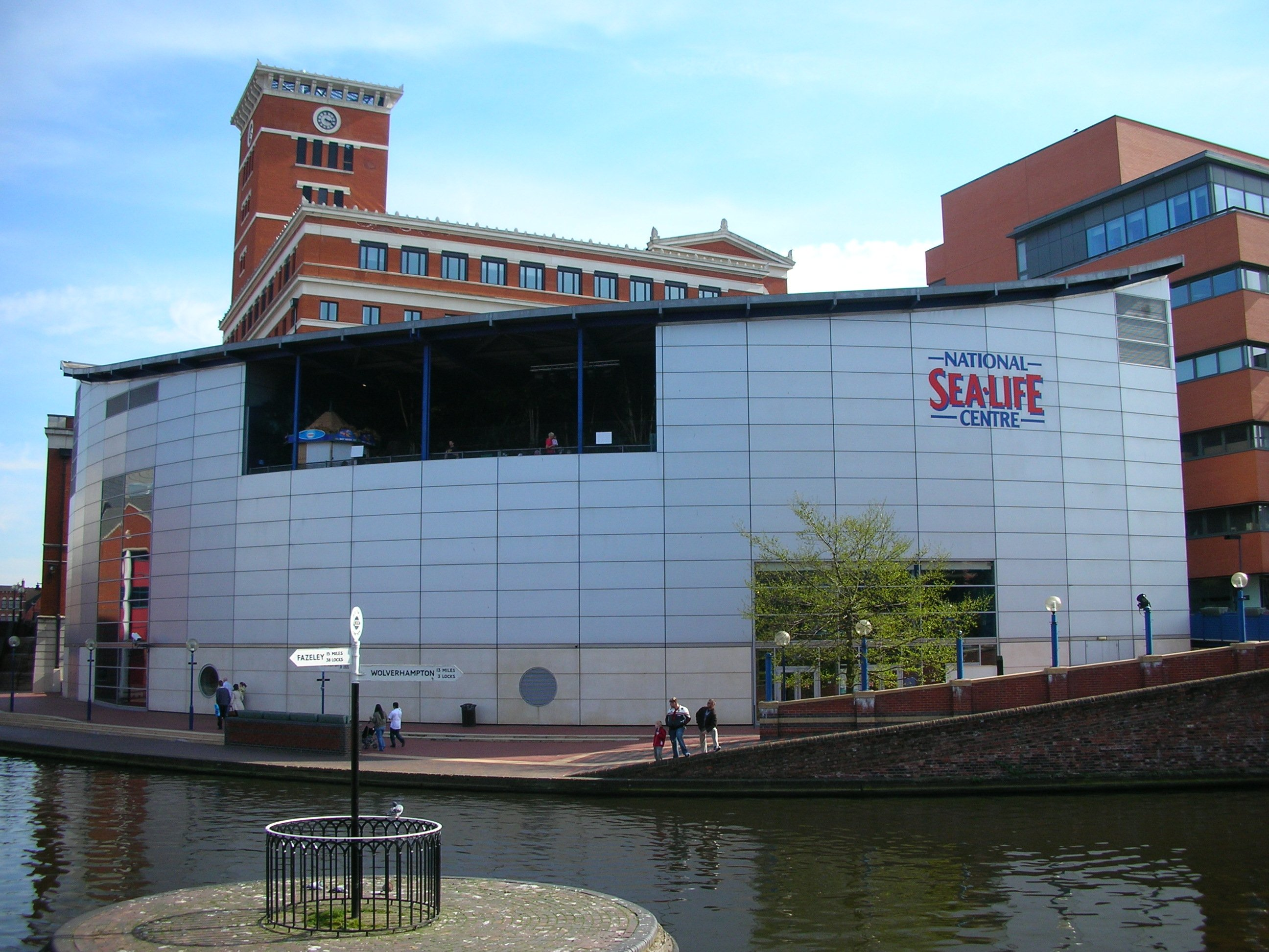 The National Sea Life Centre, Birmingham, England. Seen across Old Turn Junction, the junction of the BCN Main Line and the Birmingham and Fazeley Canal. Photographed by me 6 April 2007. Oosoom